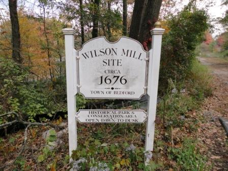 Photograph of the sign marking the historic site of Wilson Mill in Bedford, MA.